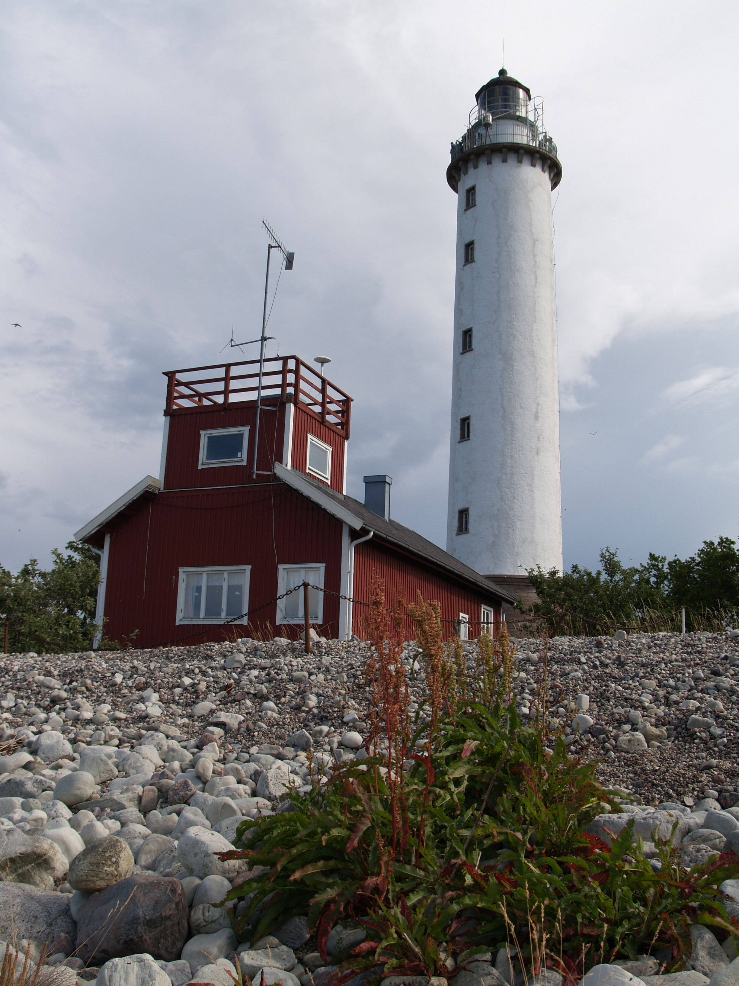 Lighthouse Lange Erik at northern Oeland, Sweden